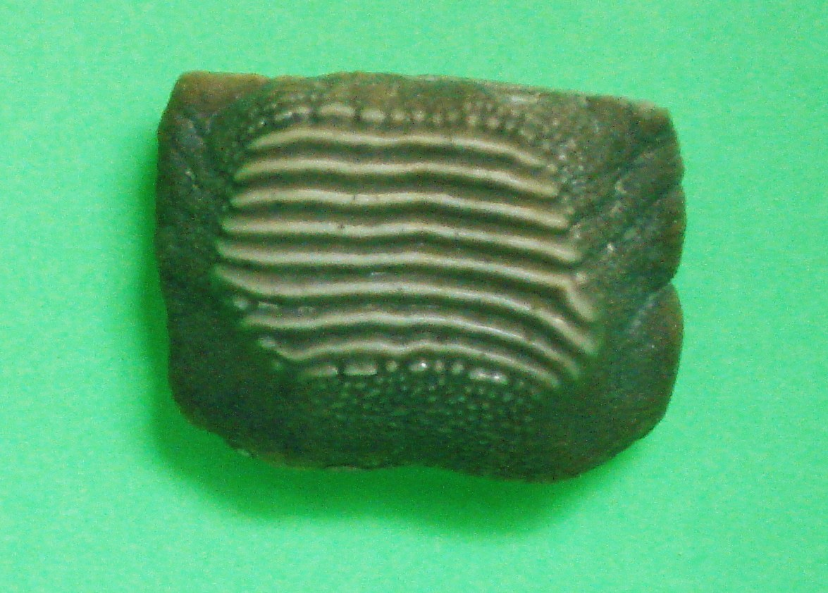 Fossil teeth of Ptychodus mammillaris, an extinct shark